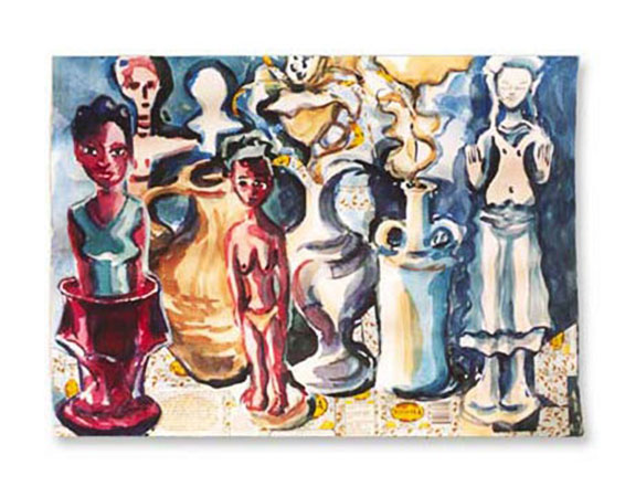 Photo of collage.